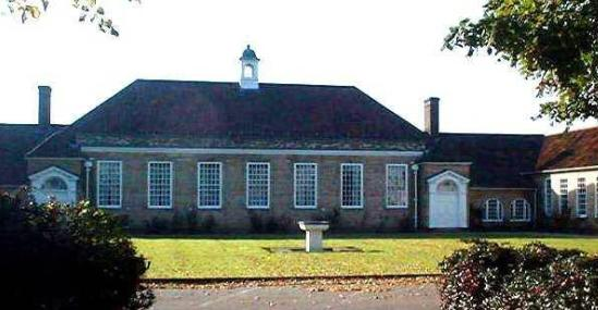 Sawston Village College Fountain Court